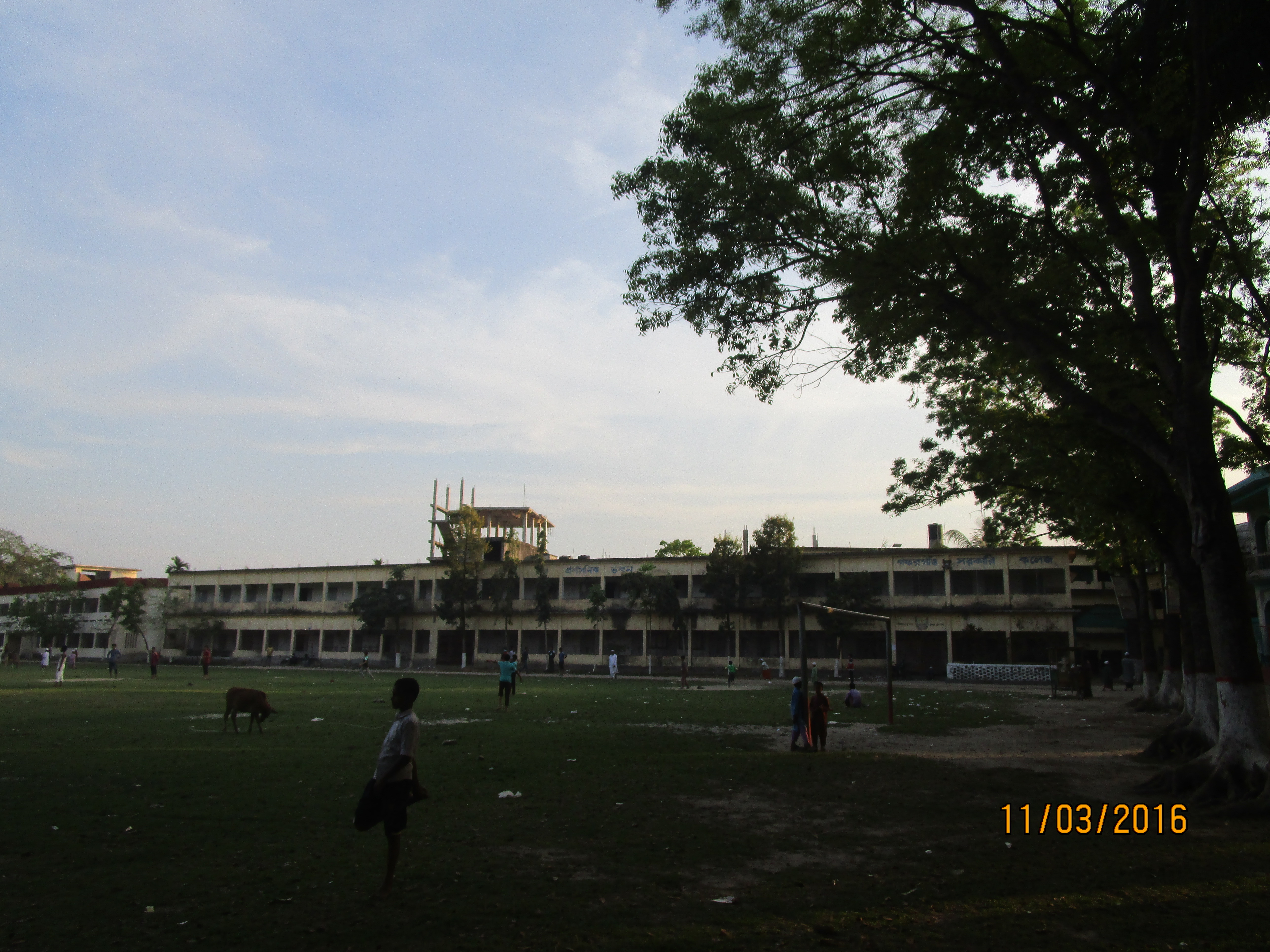 Gafargaon govt. college building